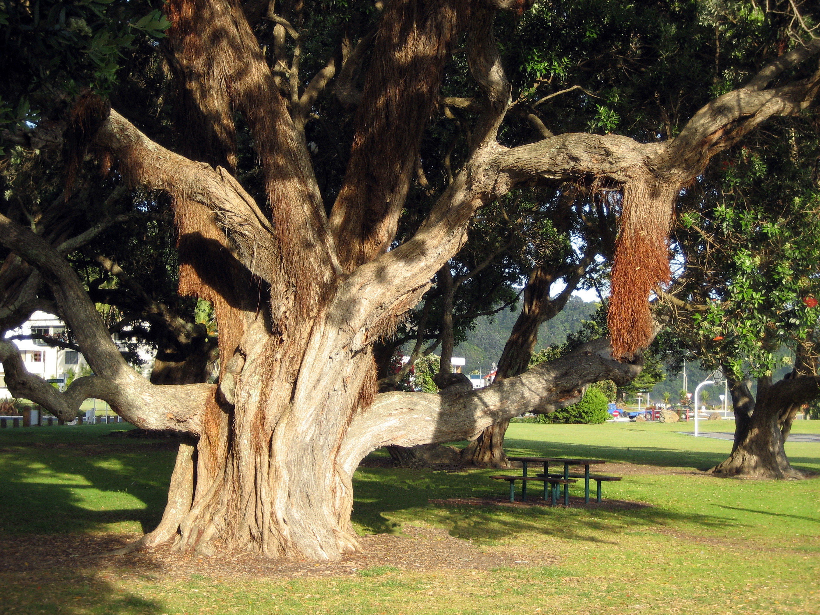 Trunk and main branches of Pōhutukawa (Metrosideros excelsa), Ōhope, near Whakatāne, New Zealand, showing fibrous matted mass of aerial roots descending from a main branch. Note also the former aerial roots fused into the trunk of the tree.